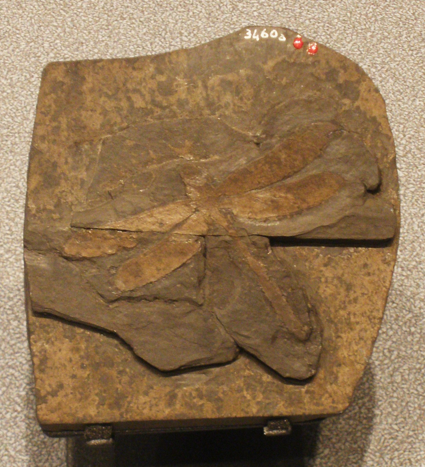 Fossil of Italophlebia gervasuttii, an extinct insect